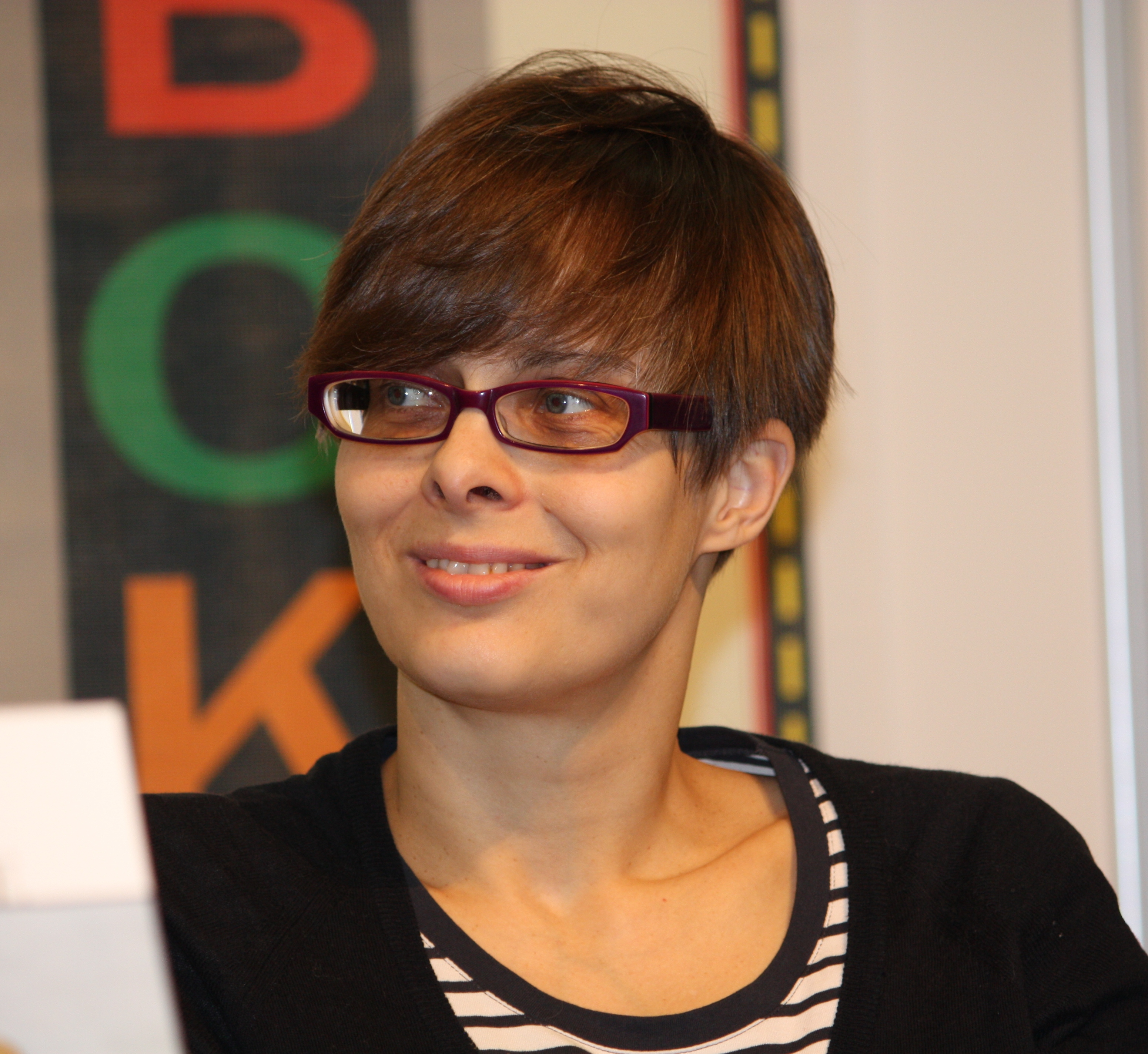 Finnish comics artist Johanna Rojola at Helsinki Book Fair 2011